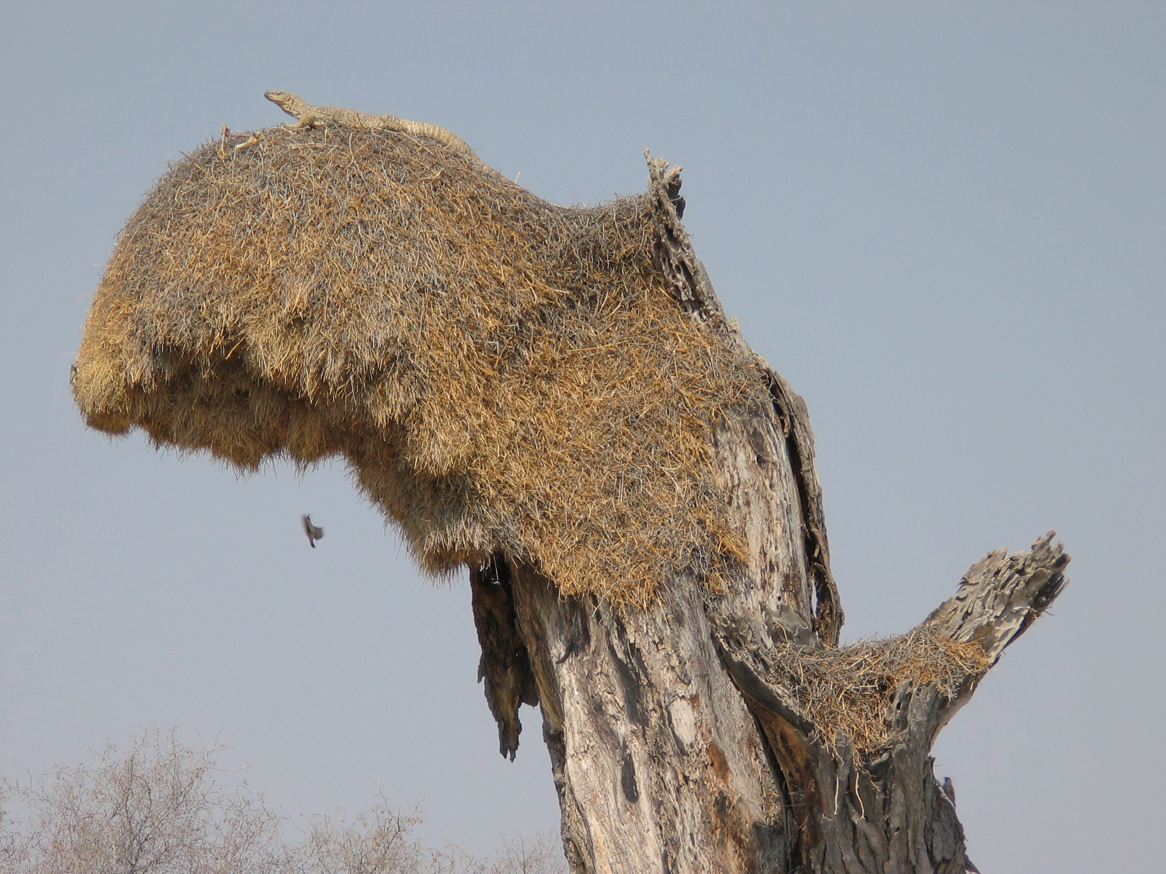 Nest of sociable weaver Philetairus socius with savannah monitor Varanus exanthematicus